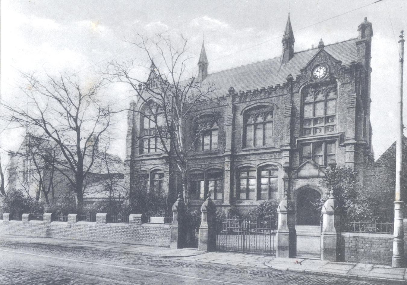 Upper School building of Liverpool College